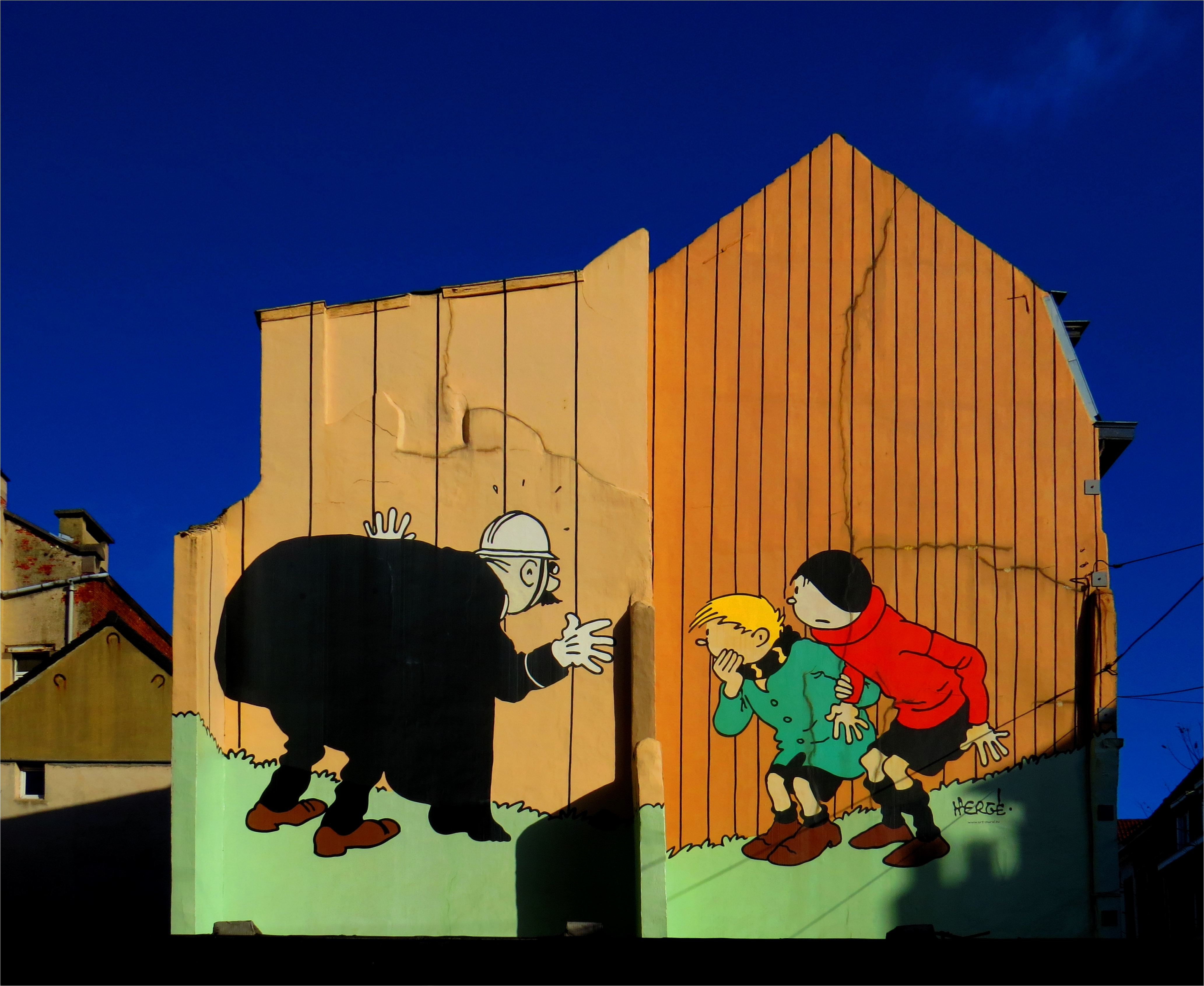 Kwik & Flupke Mural in Brussels - Characters by Hergé